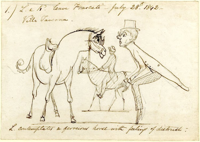 1842 sketch by Edward Lear, part of a series documenting his Italian tour on horseback with his friend Charles Knight, a son of John Knight (1765-1850) of Lea Castle, Wolverley, and of Simonsbath House, Exmoor, Somerset. Caption: "L & K leave Frascati, July 28th 1842, Villa Taverna. L contemplates a ferocious horse with feelings of distrust". Pen and brown ink, over graphite 13.4 x 19.3 cm. British Museum, London